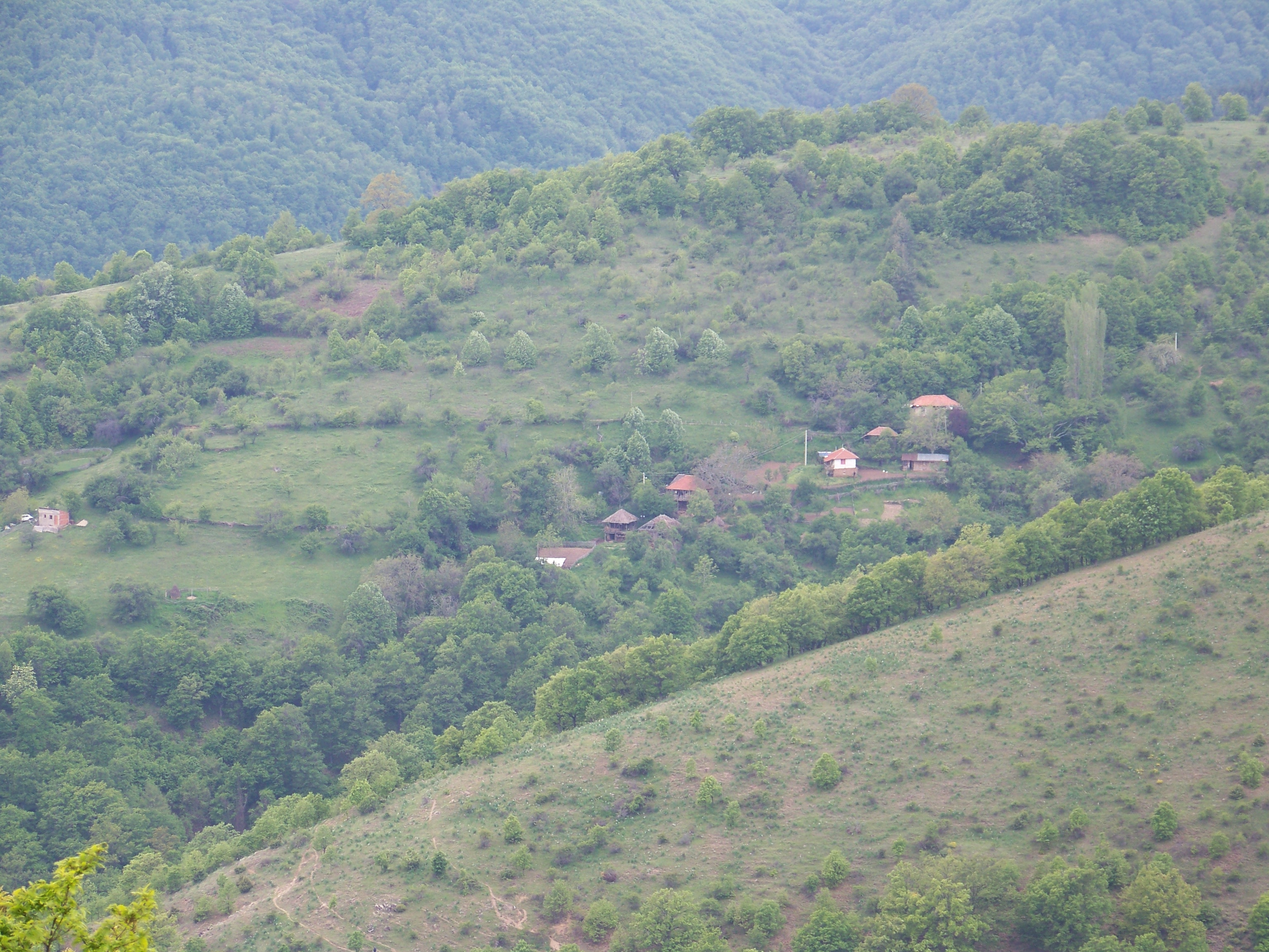 Village of Jastrebnik, Kocani, Republic of Macedonia